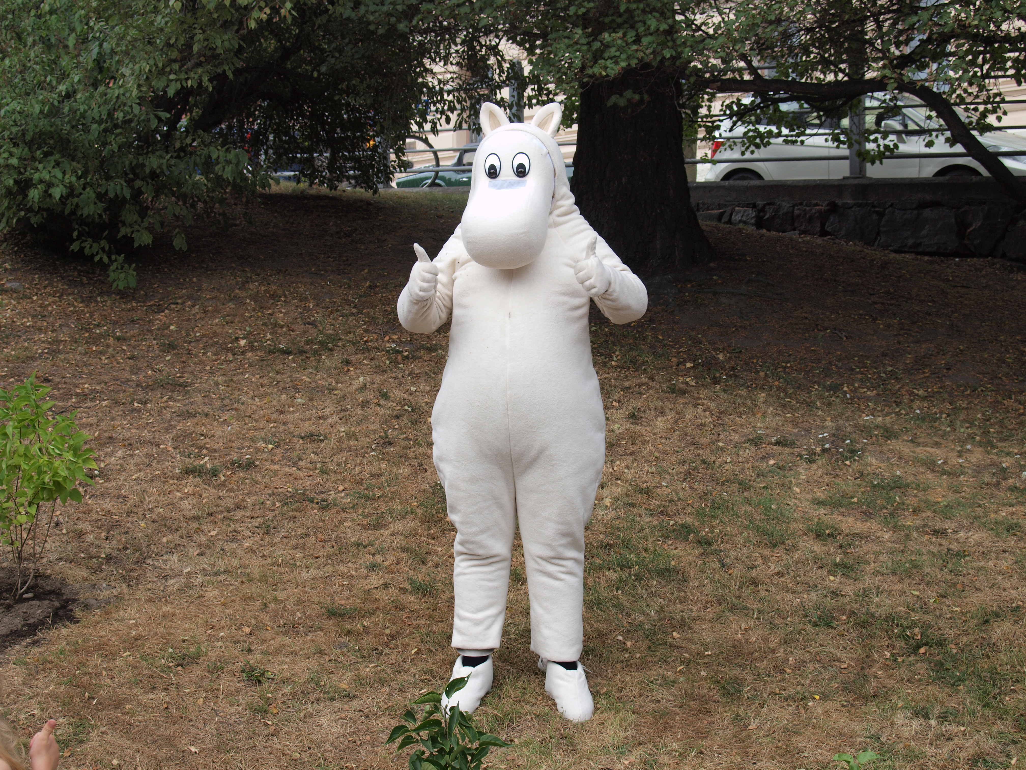 A man (or heck, for all I know, it could just as well be a woman) dressed up as Moomintroll, performing at the official opening ceremony of Tove Jansson's Park (Finnish: Tove Janssonin puisto